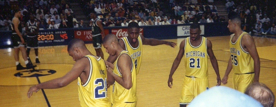 This is a photo of the Fab Five during their game in Ann Arbor, MI against Michigan State their sophomore year. From left to right, Jimmy King (24), Jalen Rose (5), Chris Webber (4), Ray Jackson (21), Juwan Howard (25). I believe in the background is Mike Peplowski and Shawn Respert (24). My friend and I camped out for like 24 hours in the freezing cold to sit close to mid court during this amazing game. I believe, though, according to UofM history, this game never existed, due to the Chris Webber scandal. They have yet to erase my memory, though.